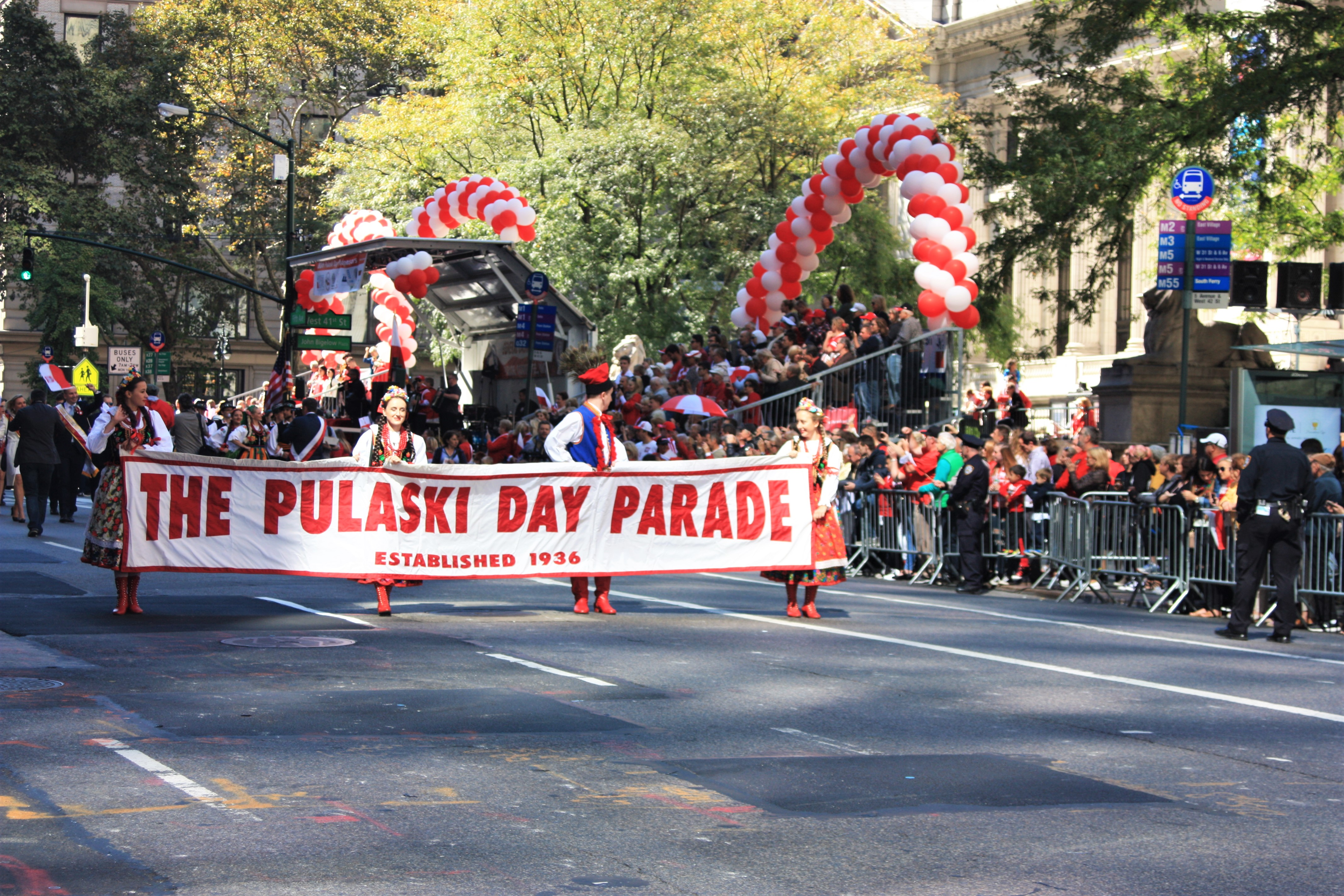 80th Pulaski Day Parade in New York. It took place on October 1, 2017.